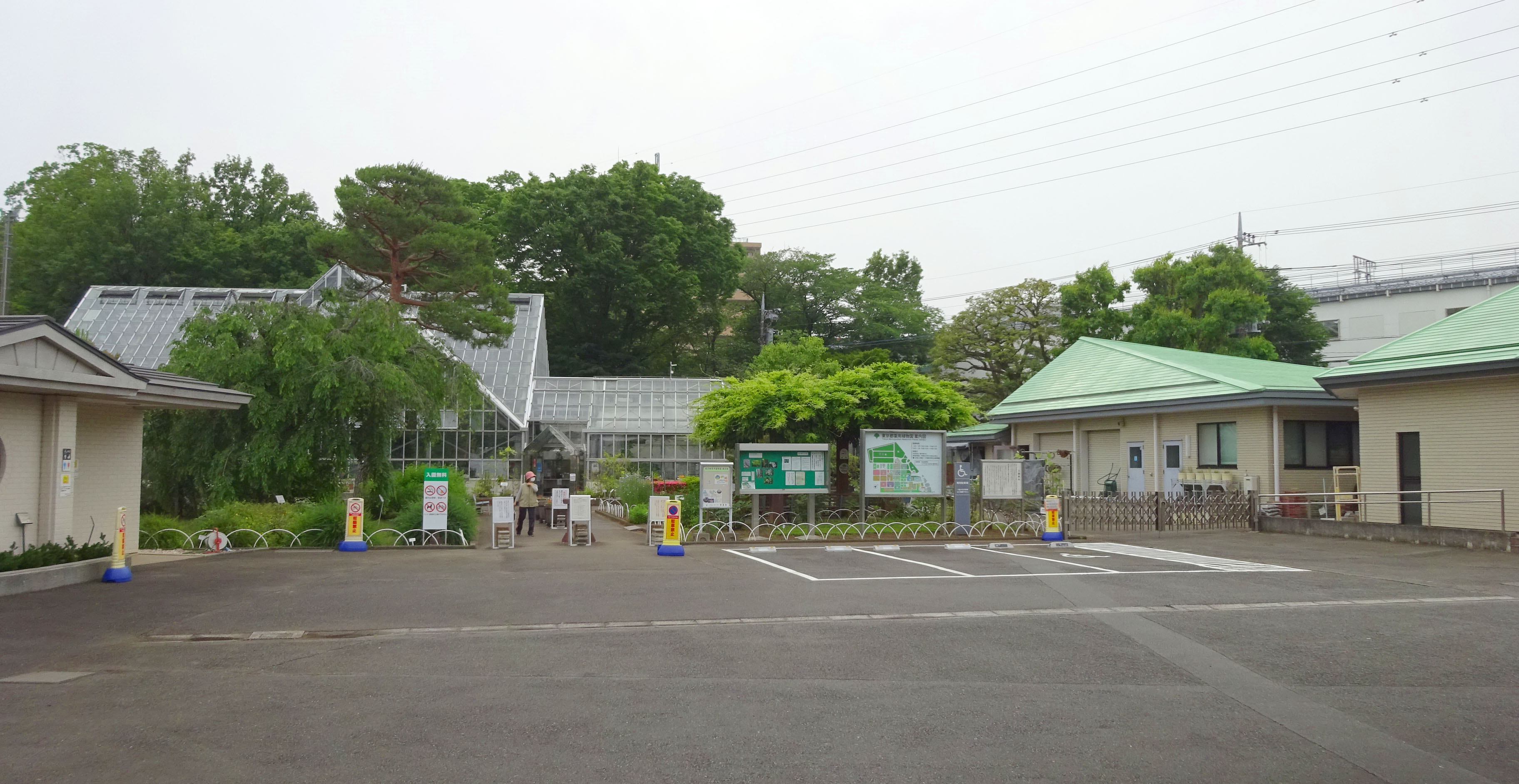 Tokyo Metropolitan Medicinal Plants Garden